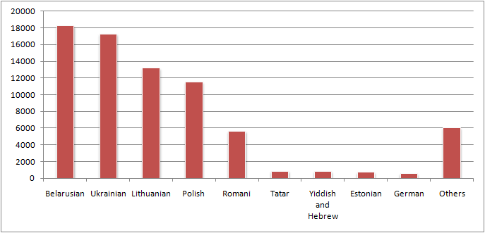 Other than native speakers of Latvian and Russian, the numbers of speakers of different mother tongues recorded in the 2000 census. Central Statistical Bureau Database for 2000 Census, table on mother tongues